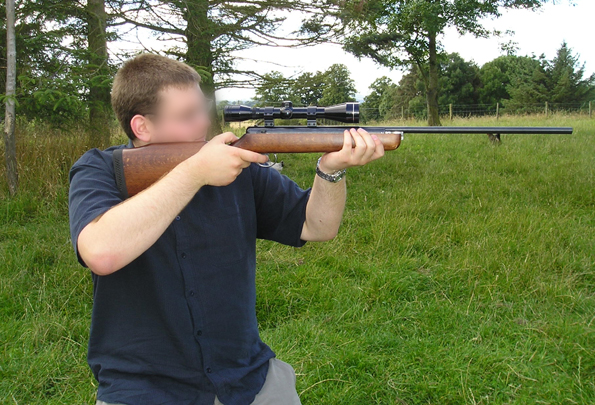 McMadkat Shooting a Supersport